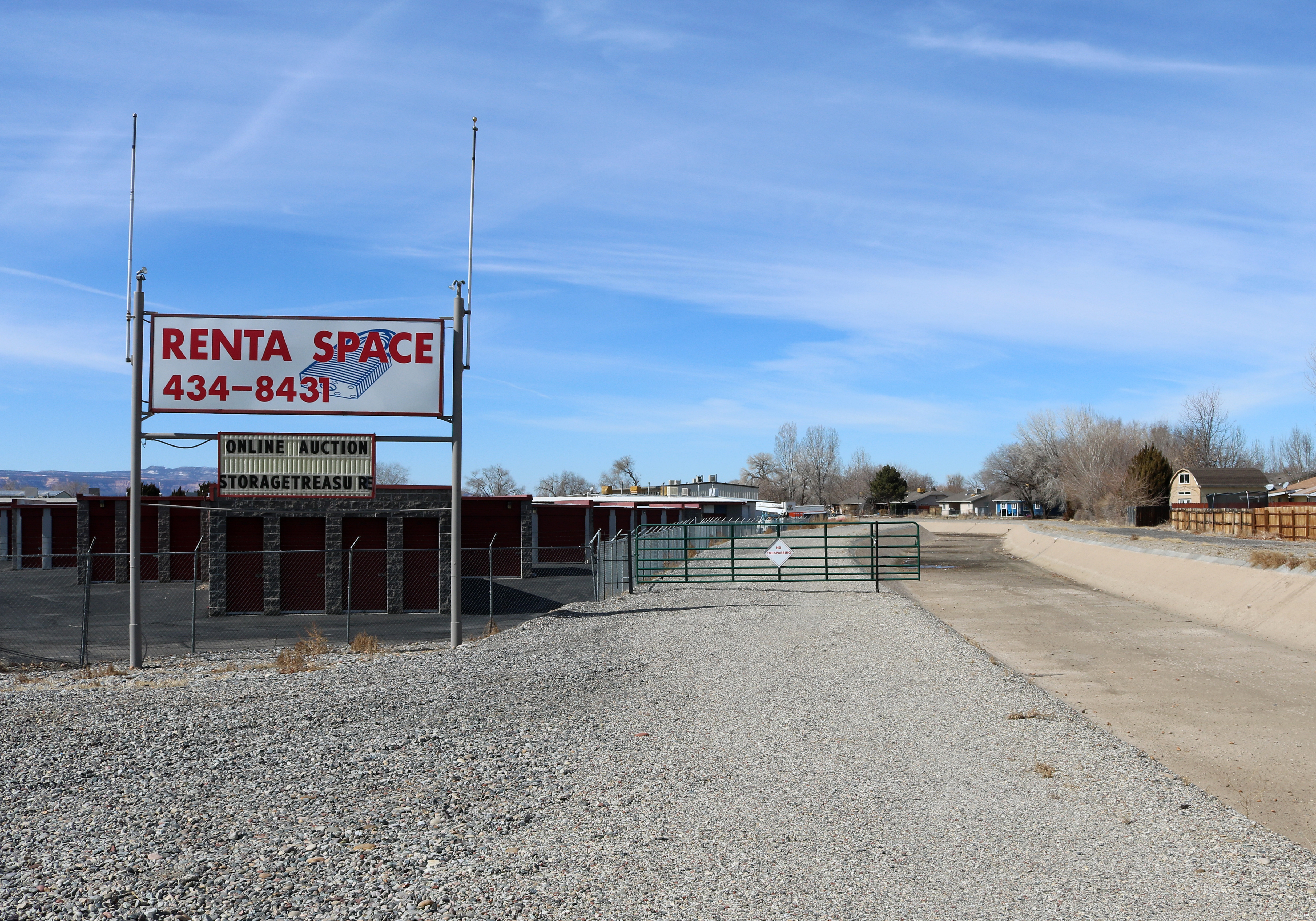 A view of part of Fruitvale, Colorado. The view shows a storage business and the Grand Valley Canal, empty in winter.